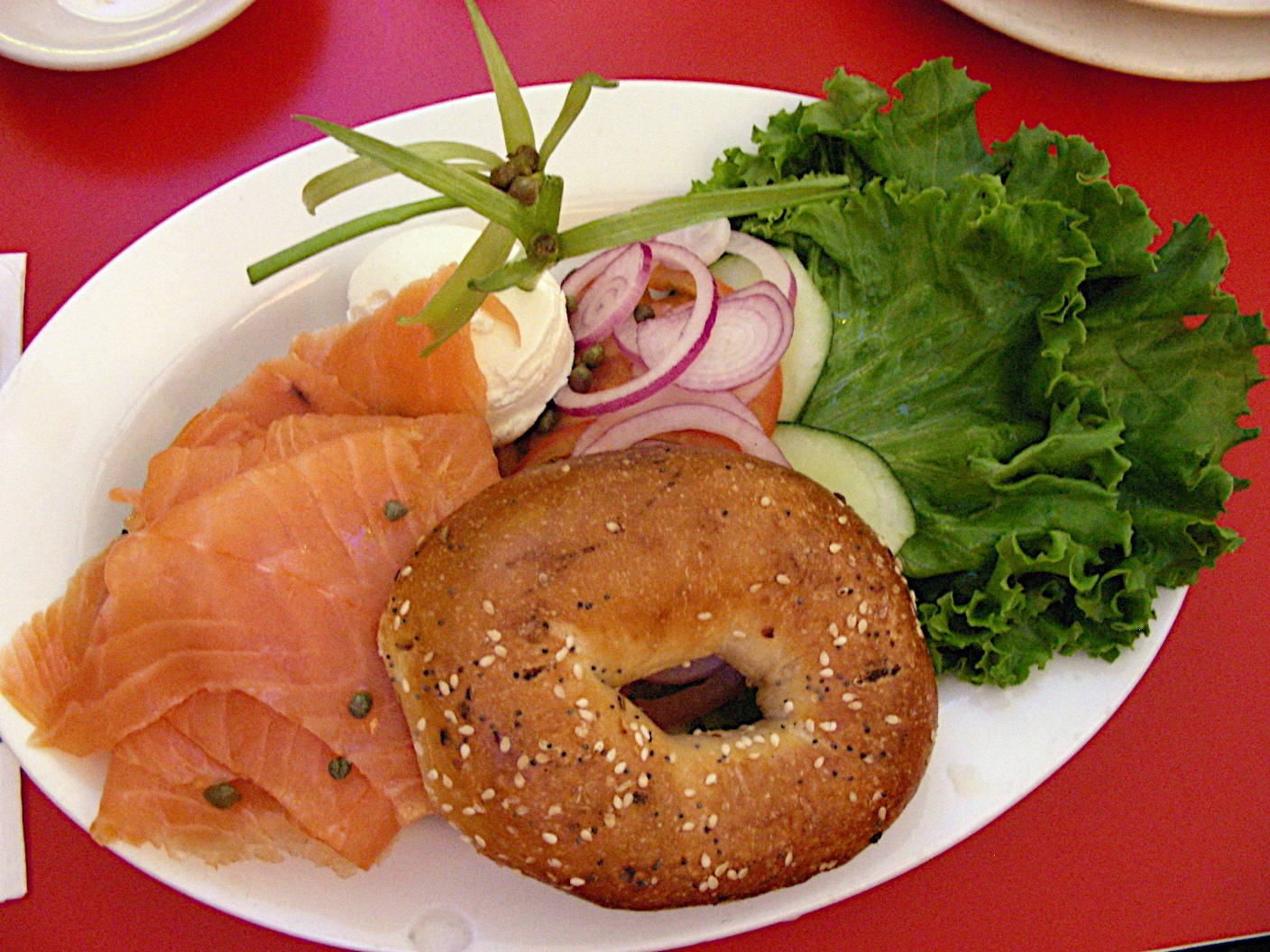 A New York must-eat: bagel, lox (cured salmon) and schmear (cream cheese)